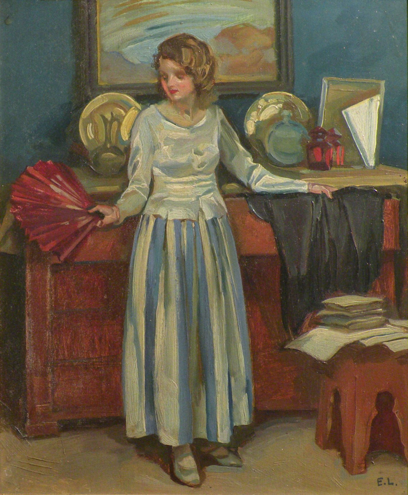 Ernst Liebenauer: Portrait Fanny Floder (Oil 26x31cm)